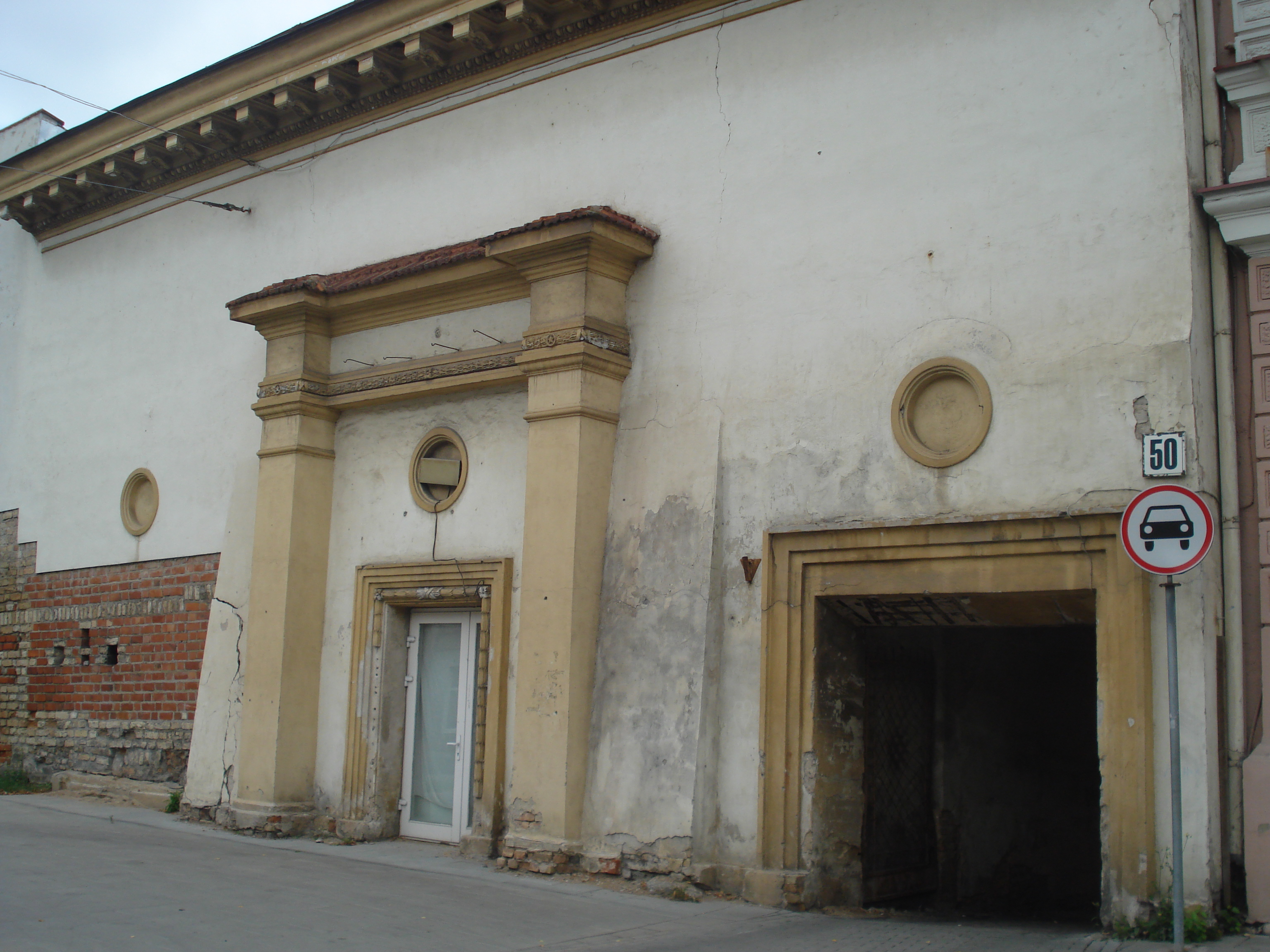 Old portal in Vilnius. Pylimo street 50